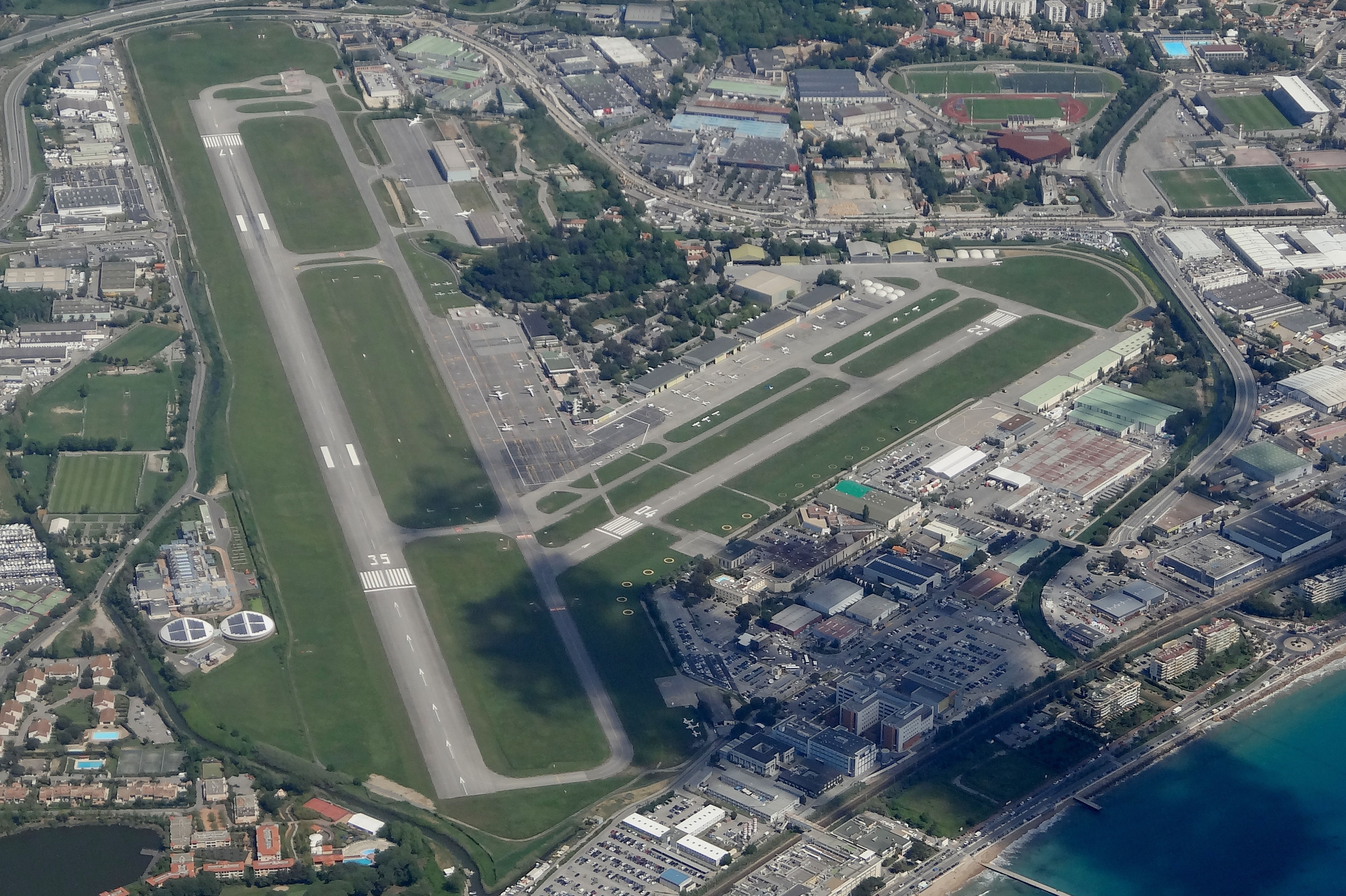 Airport Cannes – Mandelieu from Flight ORY-NCE A320 F-GHQJ Air France